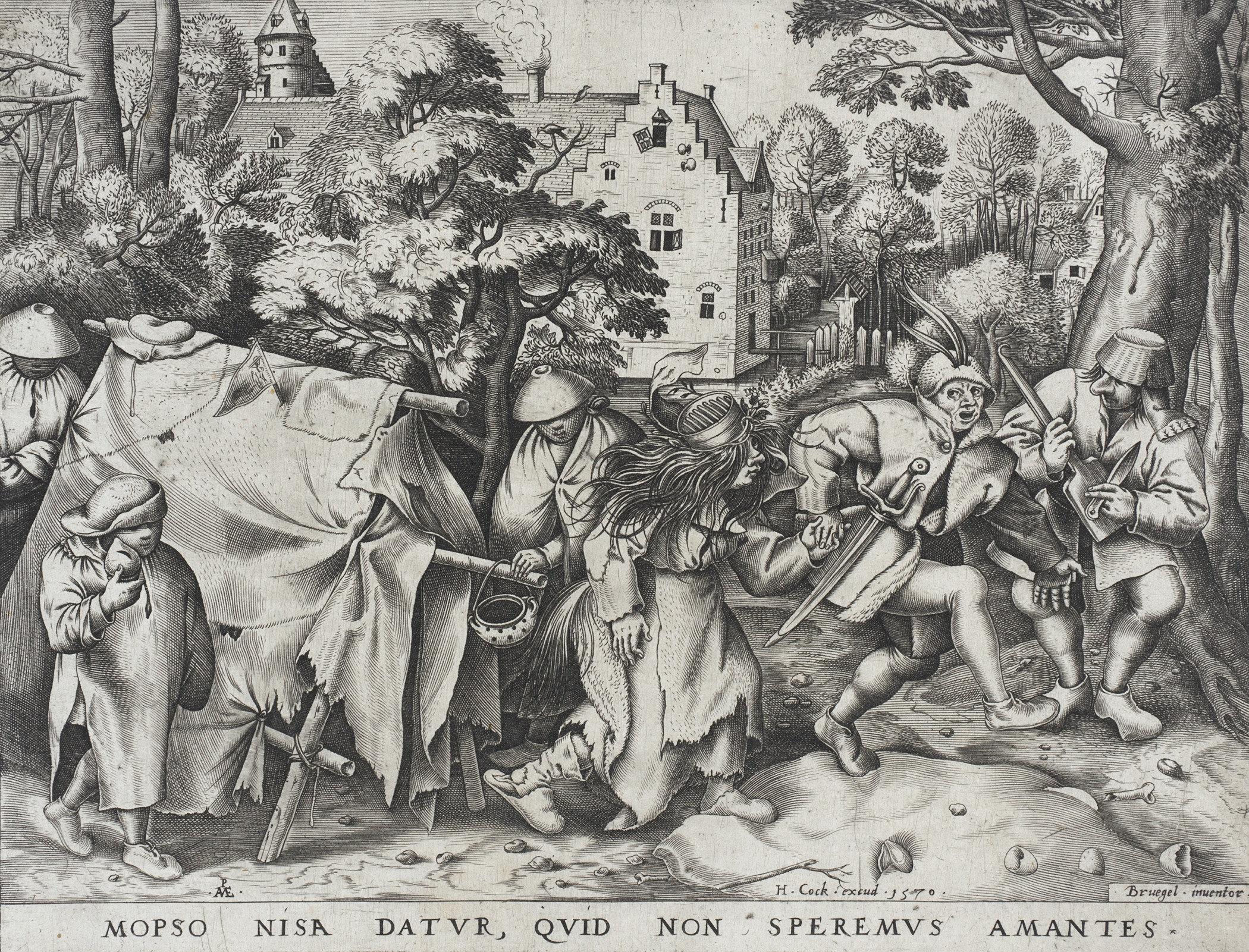 Holland, 1570 Prints; engravings Engraving Graphic Arts Council Fund (M.67.1) Prints and Drawings